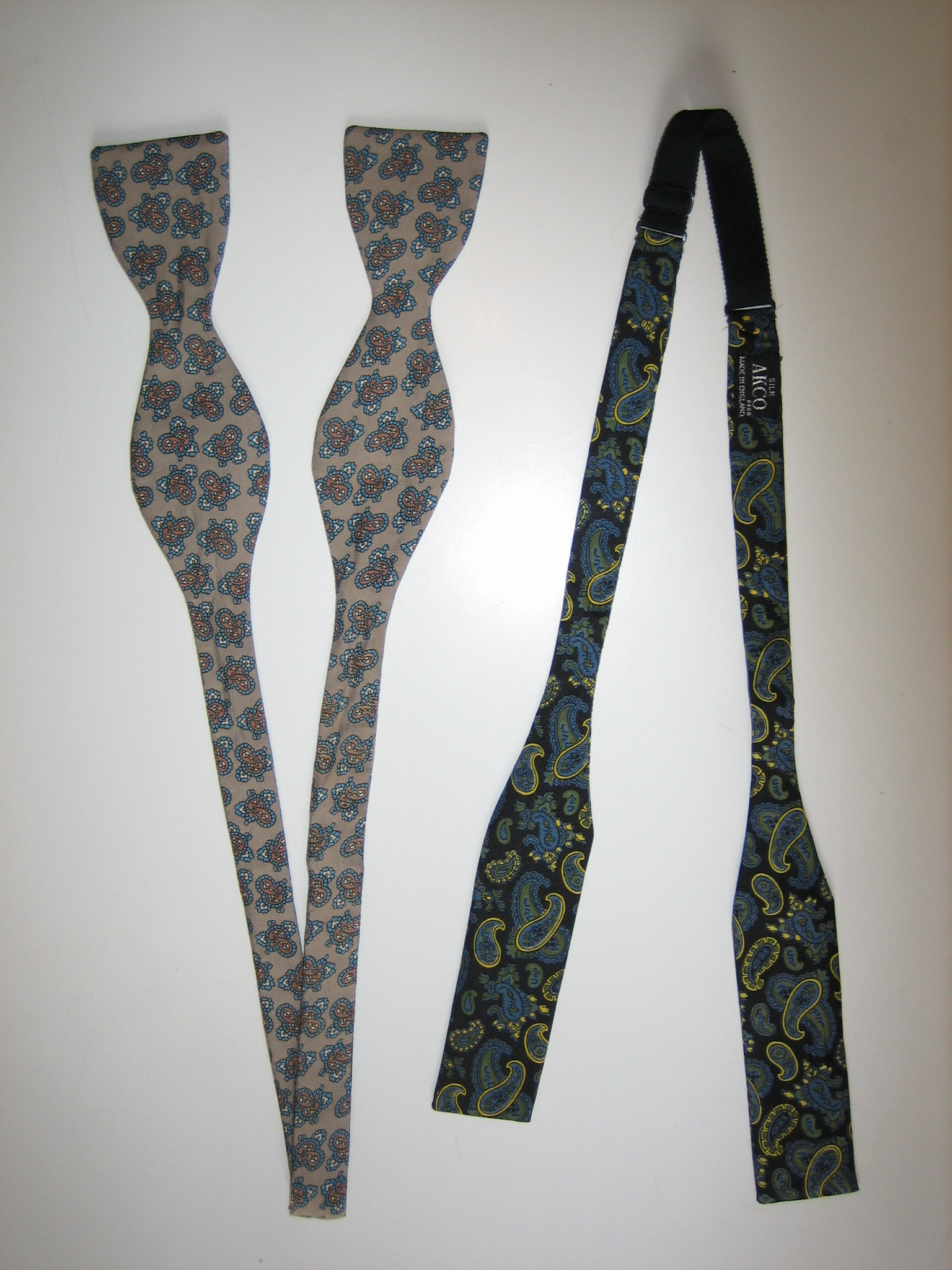 A photograph of two silk self-tie bow ties to demonstrate the different shaped ends that can be used - the "bat wing" (or "cricket bat") and "thistle" (or "butterfly") ends are shown.